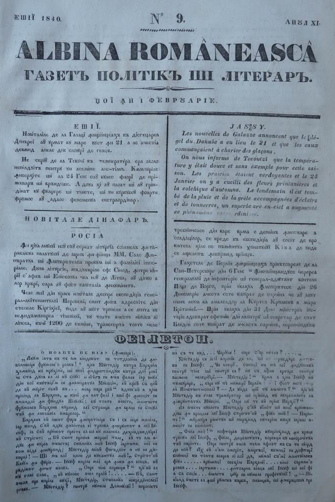 The cover of "Albina Românească" - Gazetă politică şi literară", issue no. 9, Iaşi, February 1, 1840.